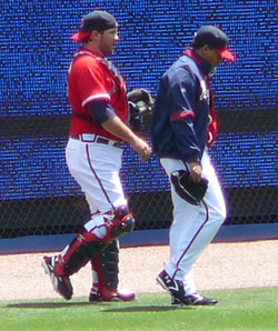 Corky Miller (left) and Jair Jurrjens, Major League Baseball players in America